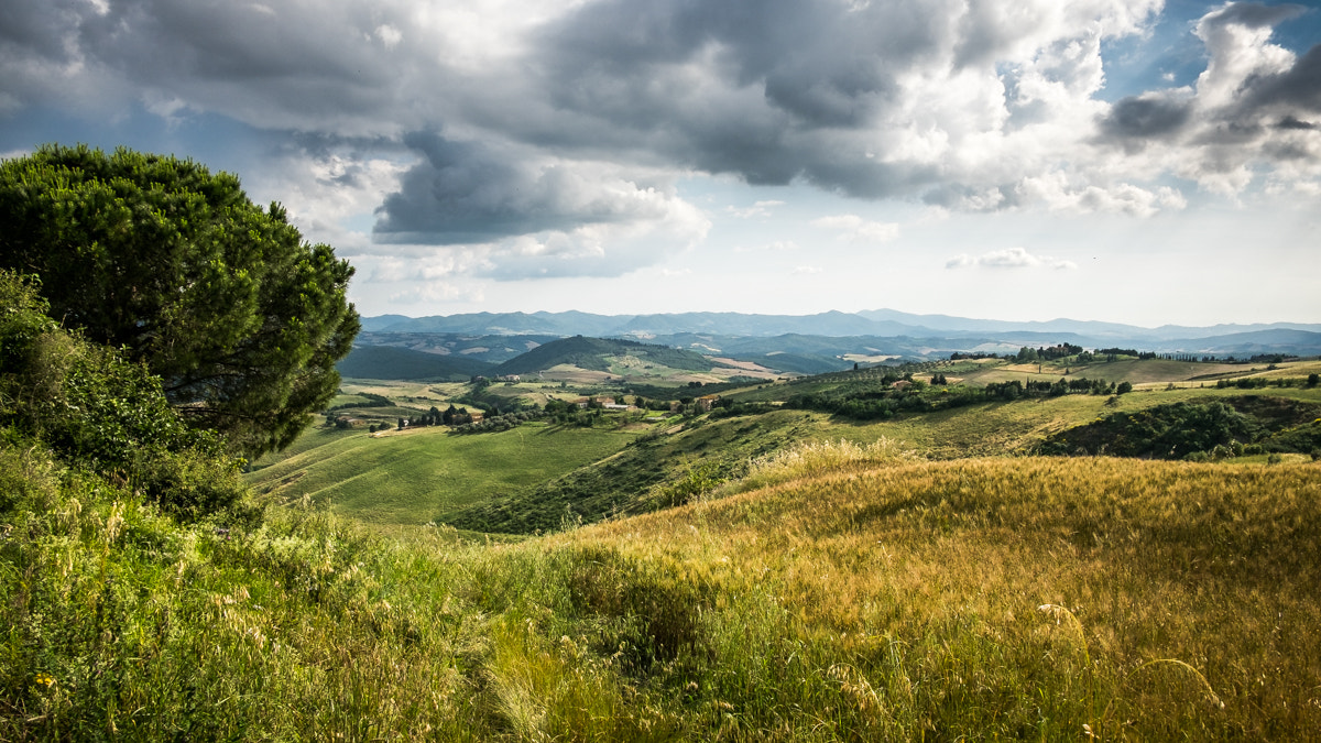 500px provided description: If you like my pictures please support me buying a print from my shop thanks! You can follow me on [#trees ,#sky ,#landscape ,#mountains ,#nature ,#travel ,#sun ,#light ,#clouds ,#europe ,#italy ,#outdoor ,#grass ,#photo ,#fuji ,#countryside ,#italia ,#cliff ,#photography ,#hills ,#toscana ,#tuscany ,#fujifilm ,#volterra ,#geotagged ,#xt10 ,#fujix ,#fuji 18mm ,#fujixt10 ,#fuji xt10 ,#fuji 18]